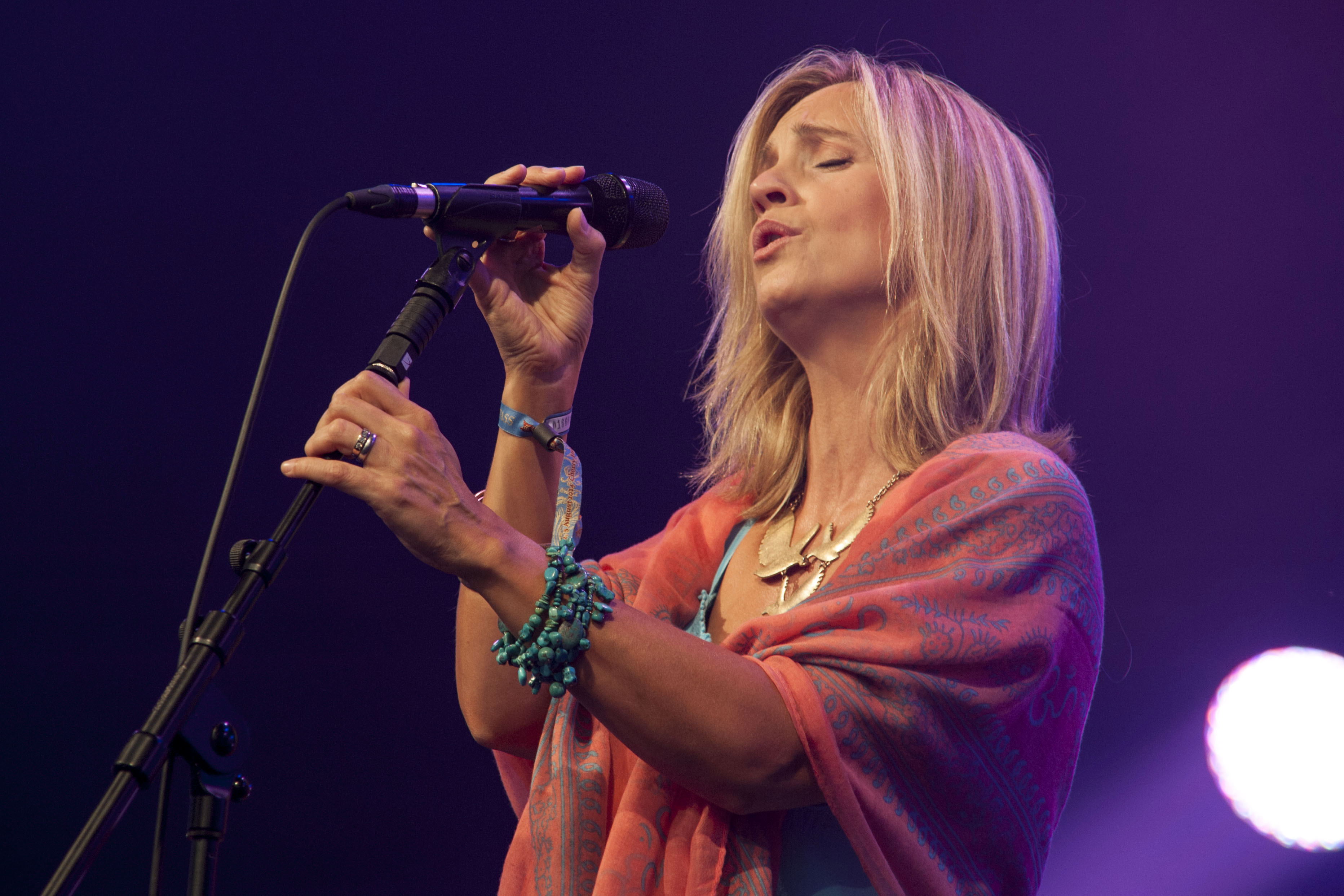 Cara Dillon at Cambridge Folk Festival 50th Anniversary.